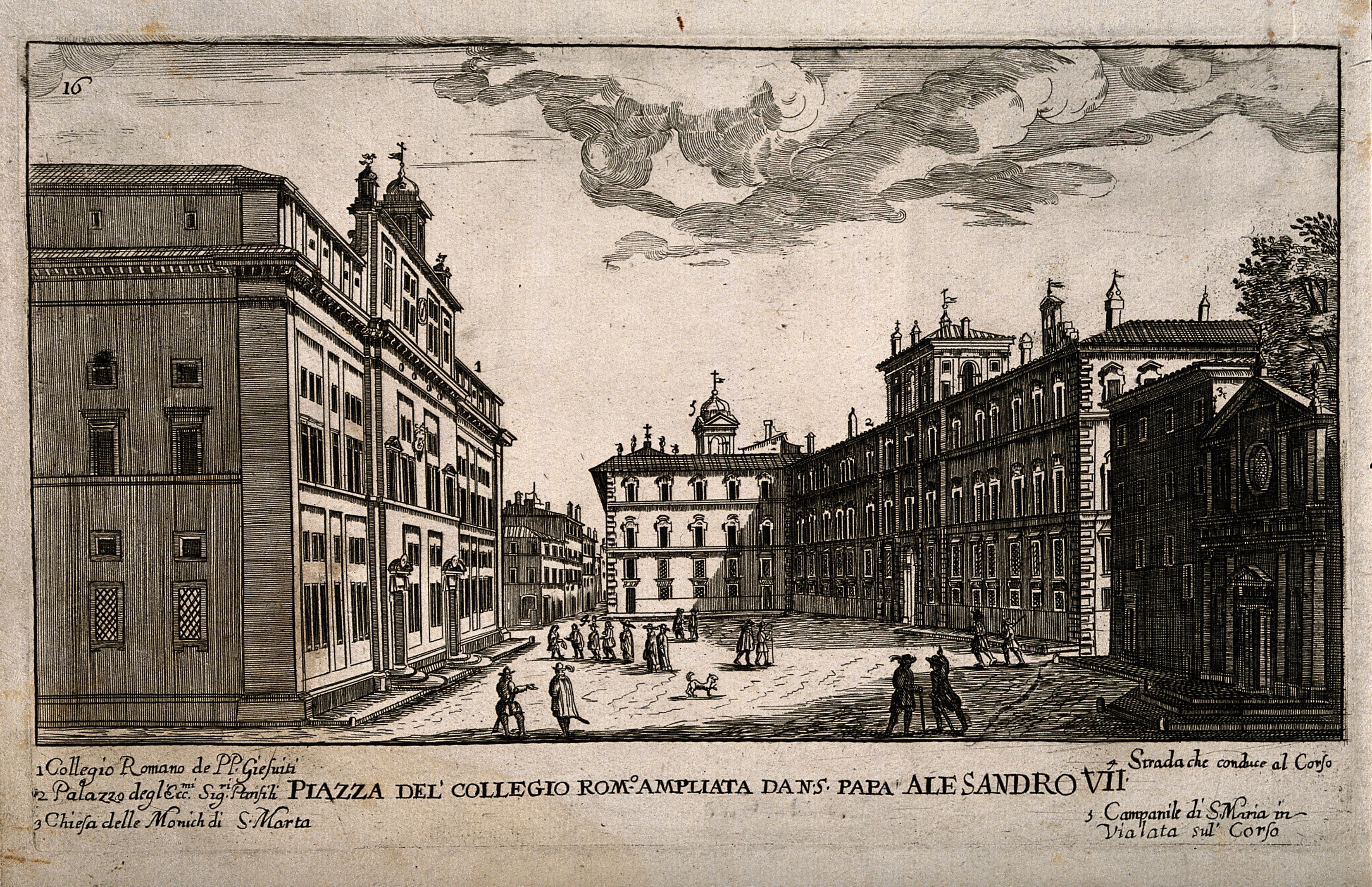 Collegium Romanum, Rome: with the extended piazza a key to the surrounding buildings. Line engraving. Iconographic Collections Keywords: Alexander VII